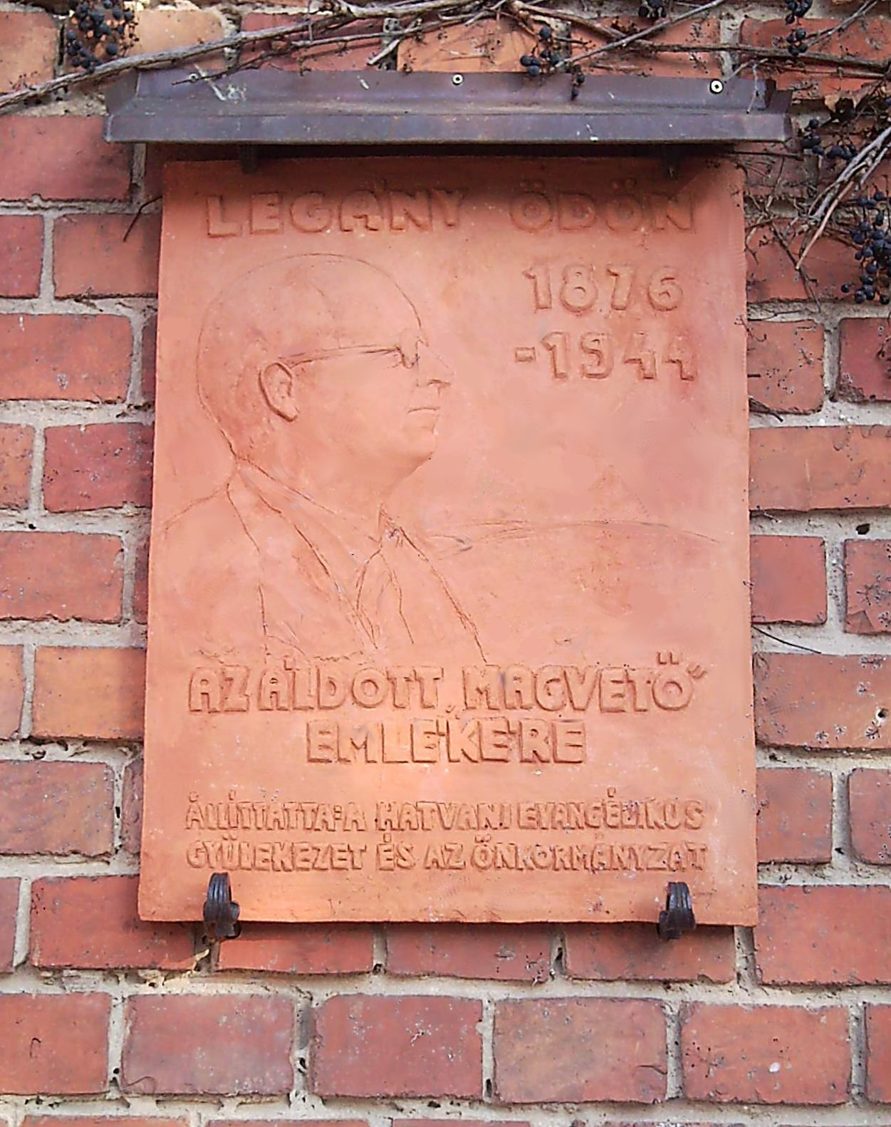 Ödön Legány commemorative plaque in Hatvan (on the wall of the lutheran church)